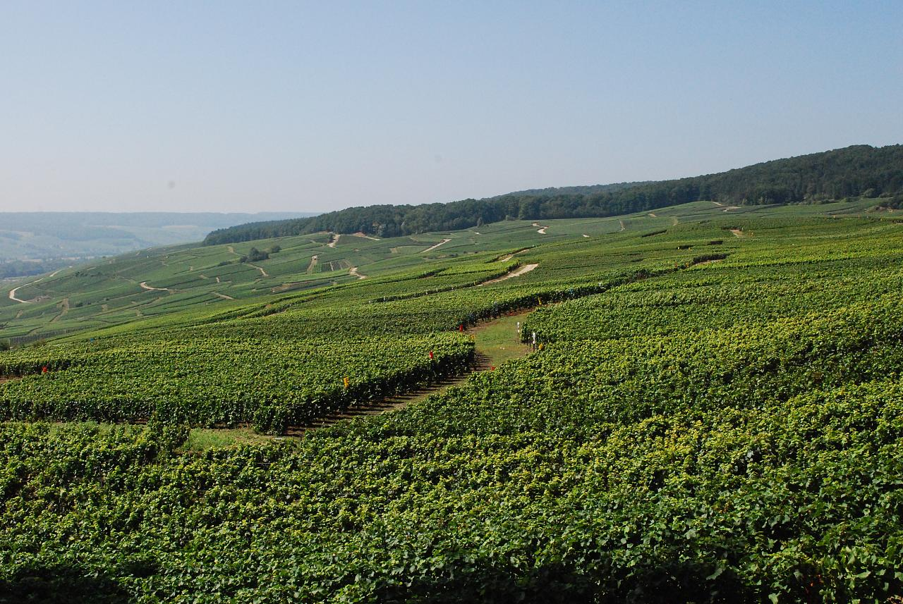 Vineyards in the French wine region of Champagne, very densely planted. Picture taking in late August.